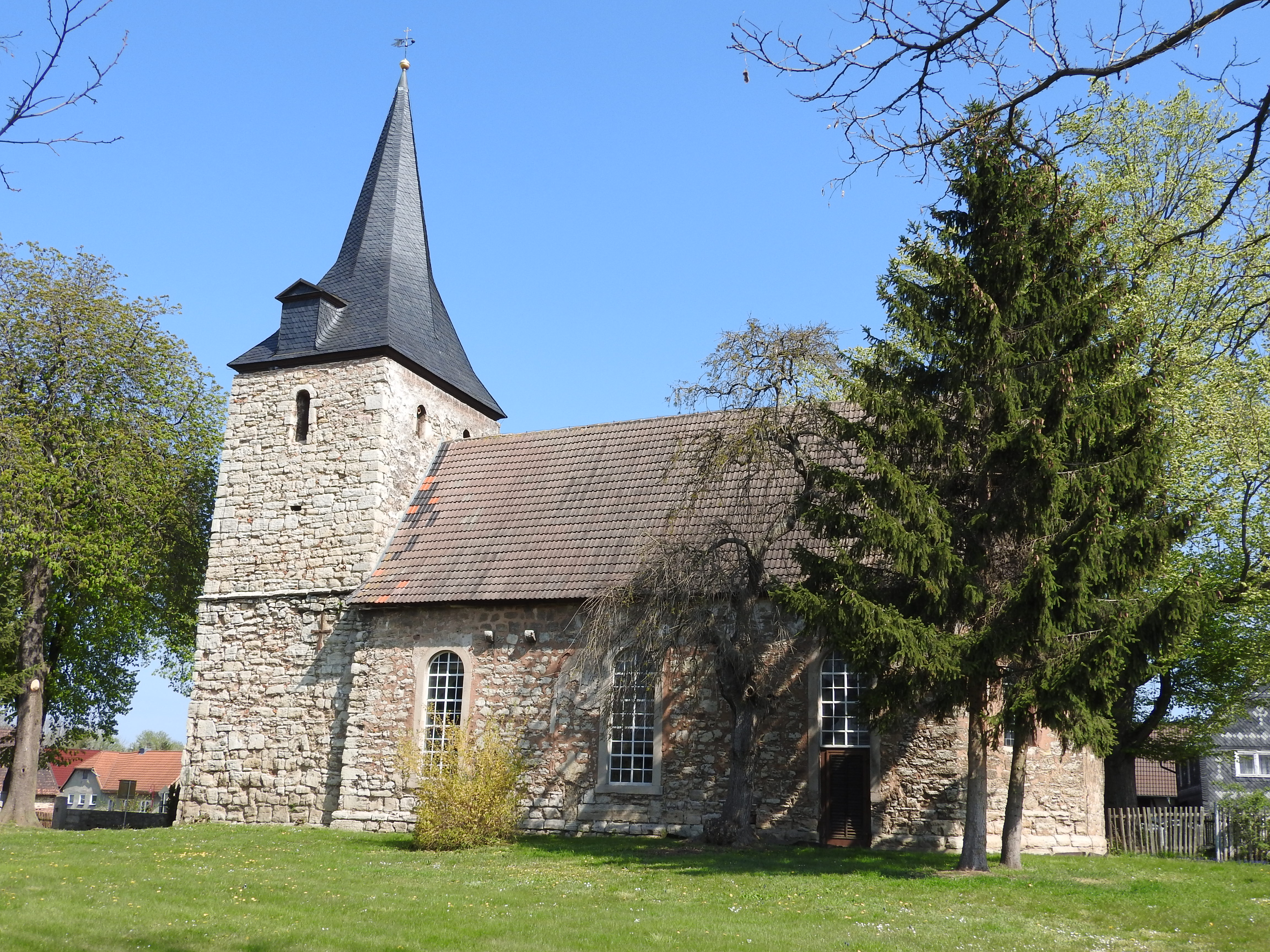 Church of Nohra, Wipper, Thuringia, Germany